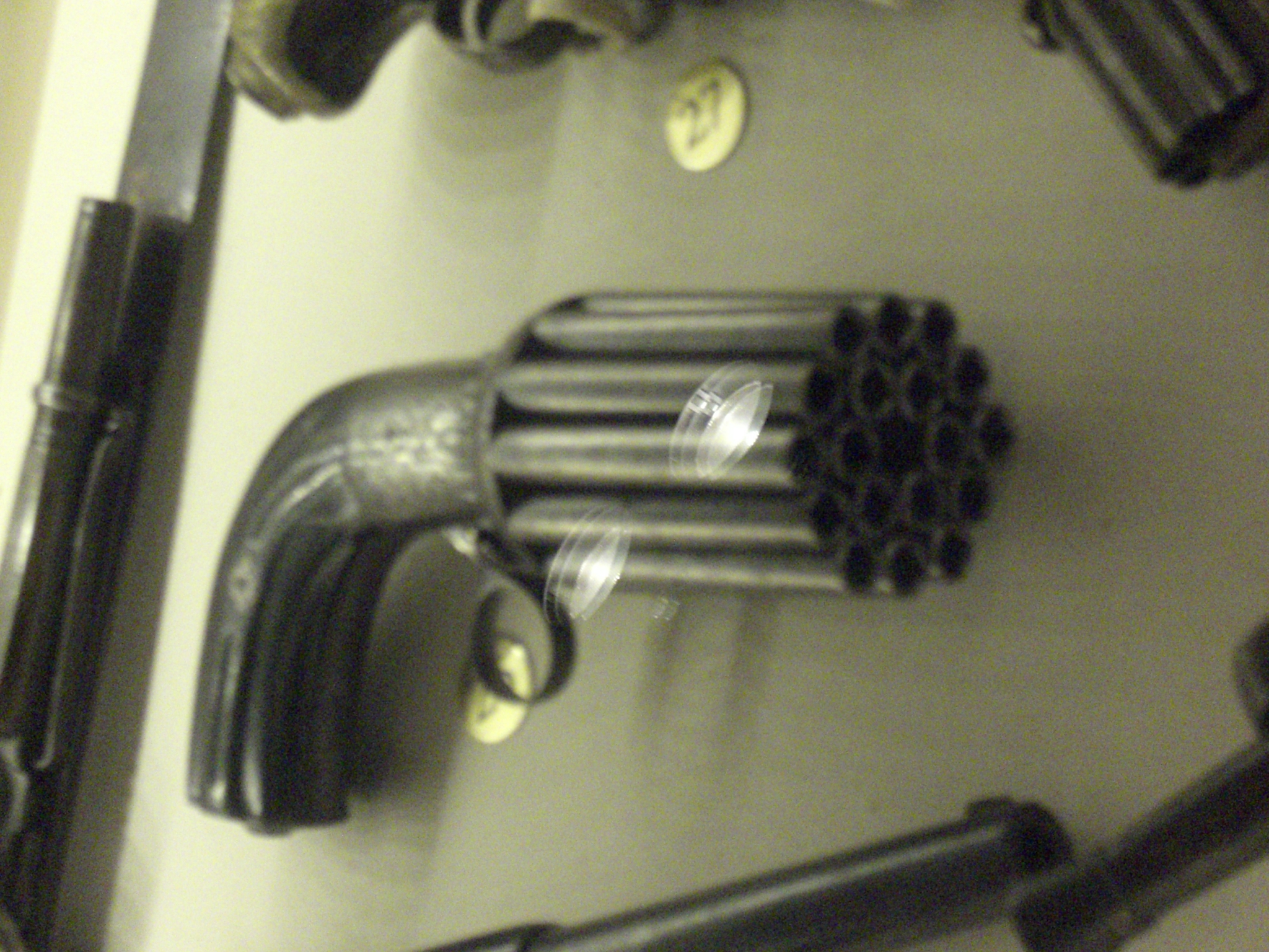 An 18 barrel Pepper-Box. Taken at the National Firearms Museum